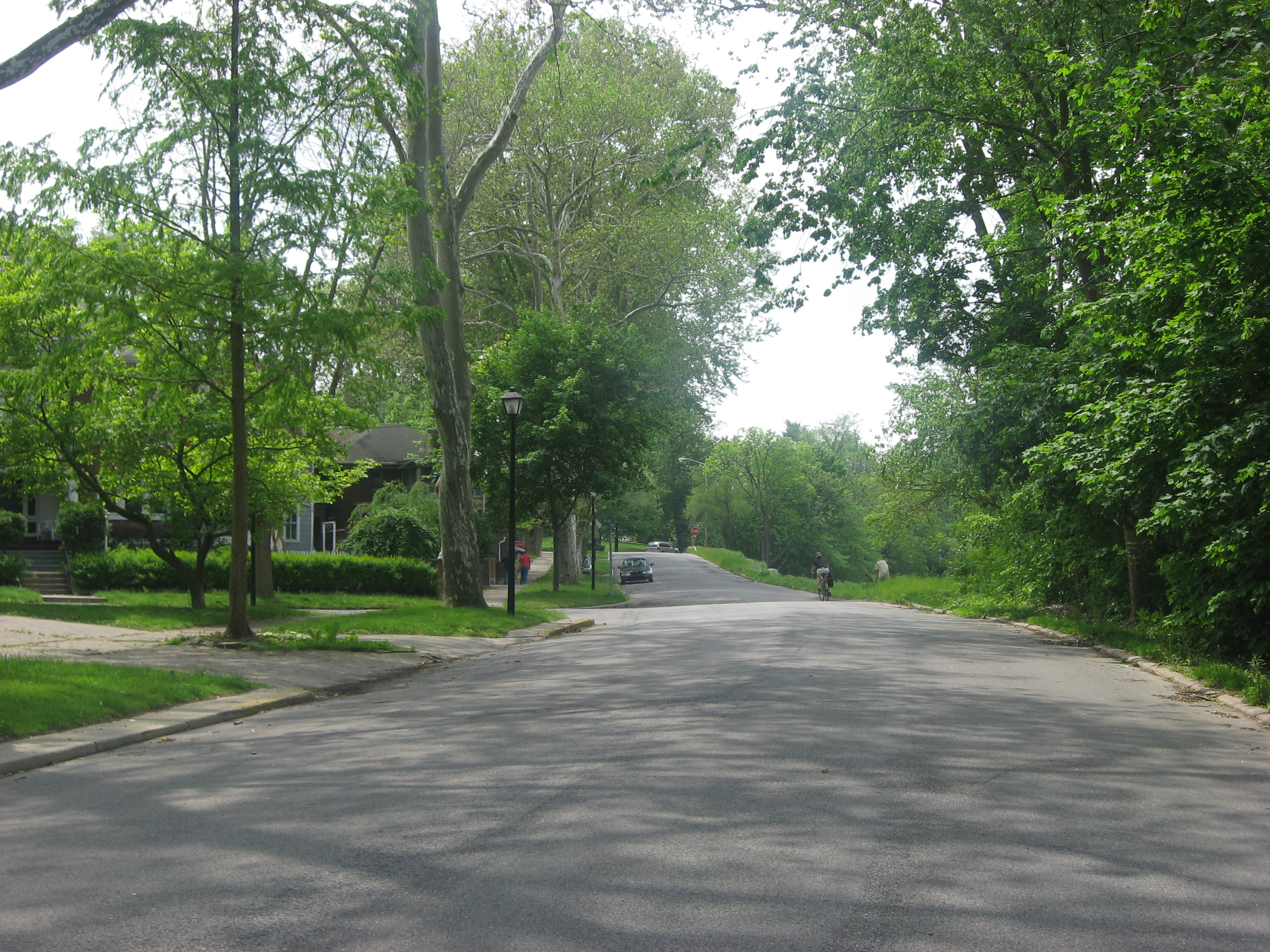 Looking eastward along Thieme Drive east of the Wayne Street intersection in Fort Wayne, Indiana, United States. This component of Thieme is part of the Fort Wayne Park and Boulevard System Historic District, a historic district that is listed on the National Register of Historic Places.